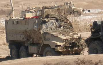 BAE Caiman after rolling over into a ditch in Iraq and getting pulled out.